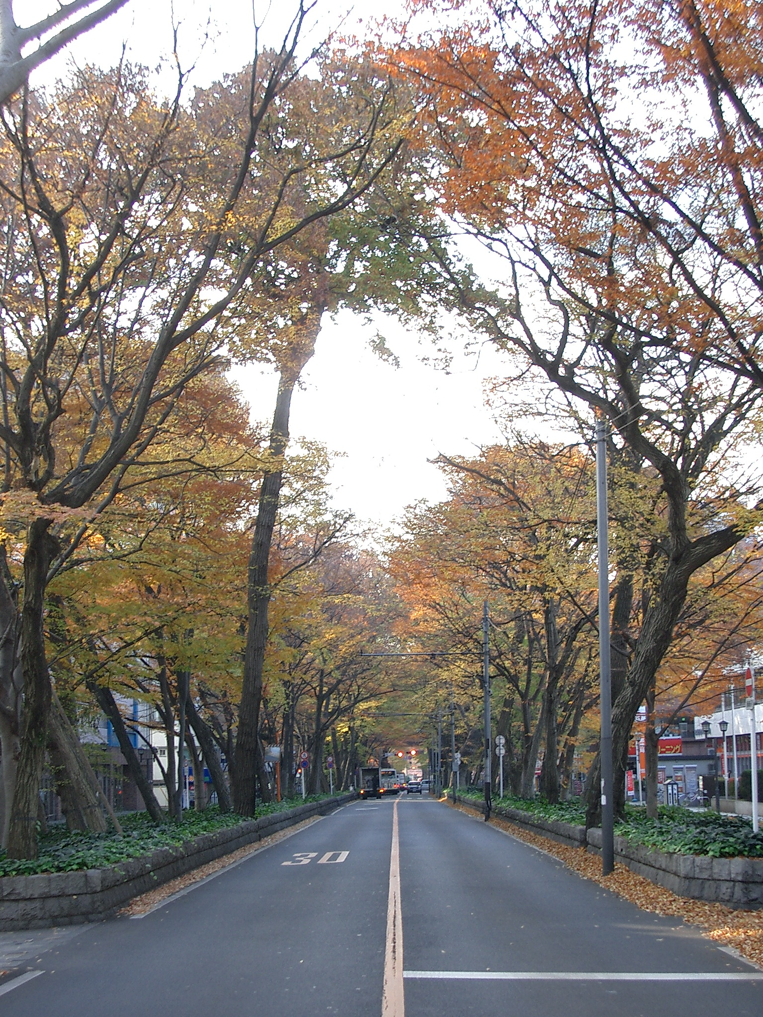 The northern part of Baba Daimon Keyaki Namiki (Baba Daimon Zelkova Serrata's Trees-line) in Fuchu city, Tokyo, Japan. Designated as a national natural monument of Japan. ja: 日本国指定の天然記念物「馬場大門のケヤキ並木」の北側（東京都府中市）